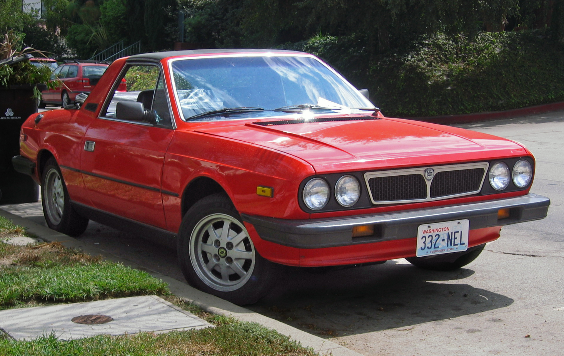 A 1982 Lancia Zagato Spider (US name for the Zagato-built Beta Spyder) in Hollywood. I left the license plates since they are no longer valid. This style of grille was introduced on European market Coupés, Spiders, and HPEs during 1981 and seems to have made it onto some 1982 Zagatos for the US as well. Nothing is certain about these cars though, including basic facts such as engine power...